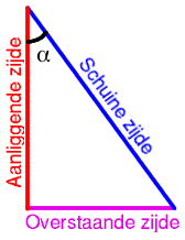 Right angled triangle with names of the sides in Dutch.